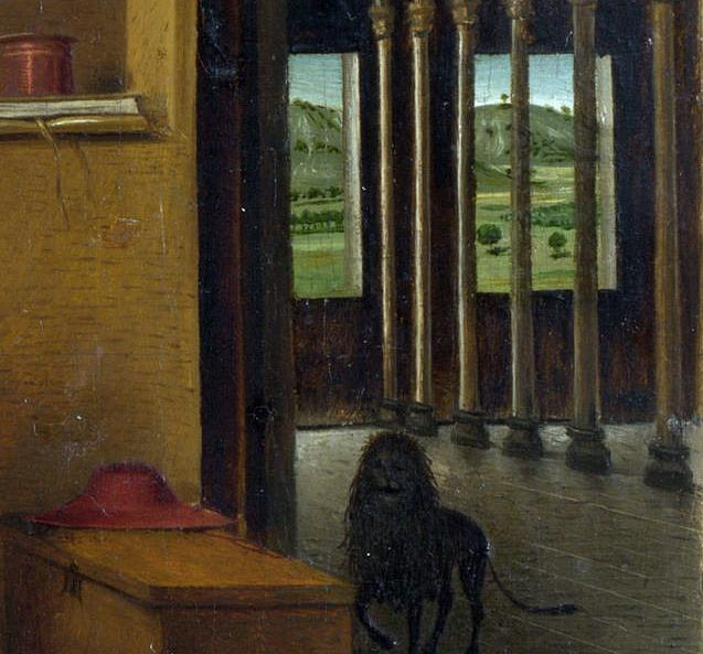 Antonello's Saint Jerome in his study detail